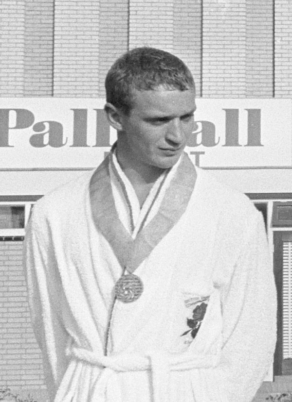 Brian Phelps, 10 m platform diving podium European Championships